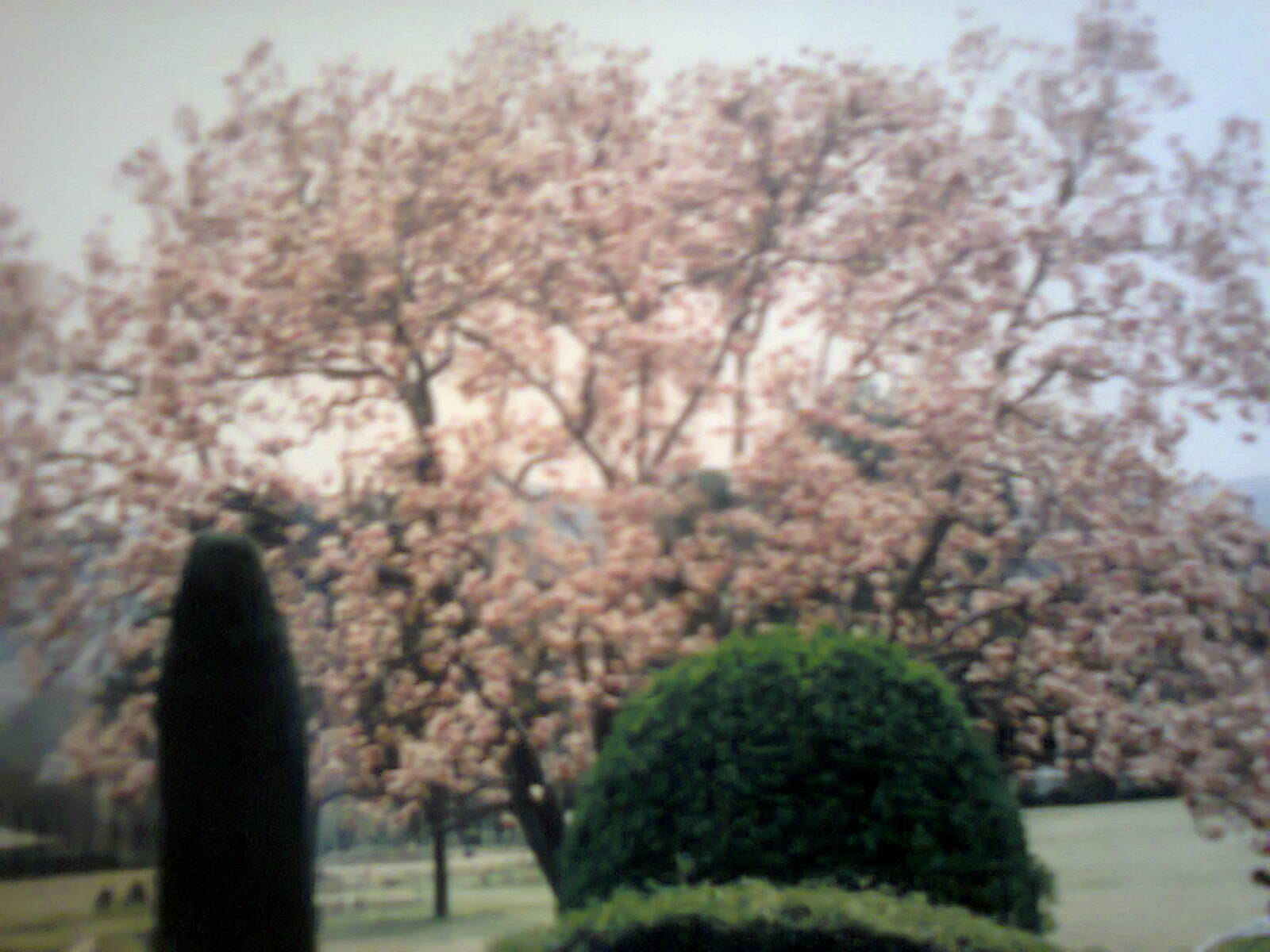 Flowering magnolia tree in Abbottabad park, town Abbottabad, Khyber Pakhtunkhwa, Pakistan, photo taken by me on my cell phone